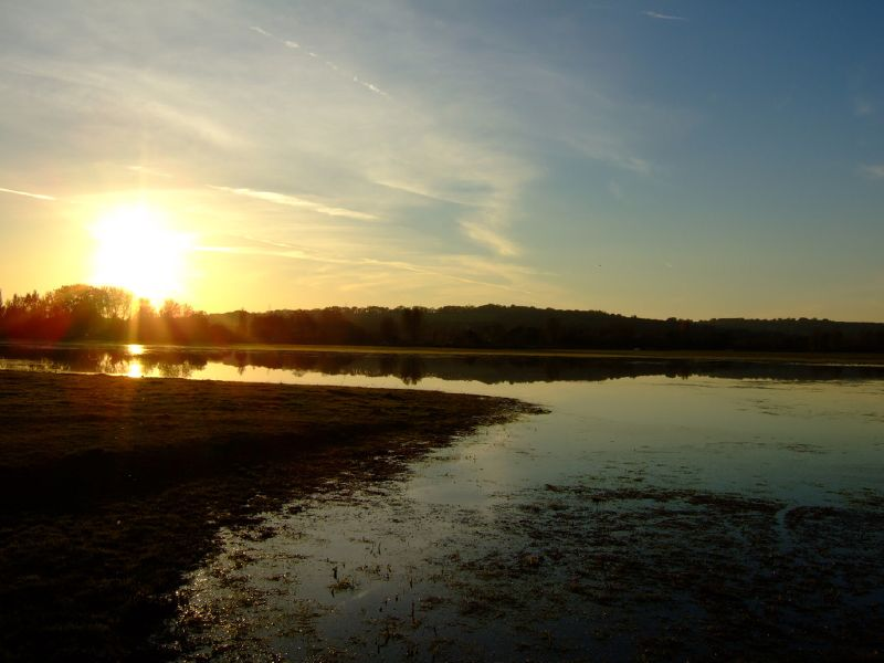 This is the official 10,000th port meadow sunset picture on flickr.